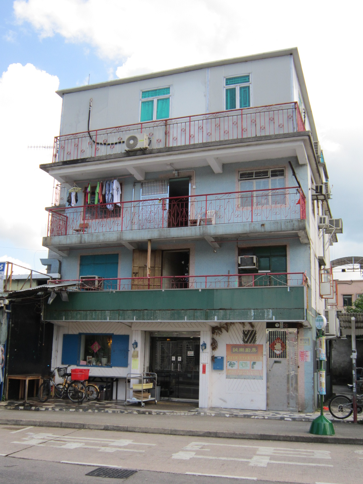 No. 2, Tsz Tong Tsuen, Kam Tin